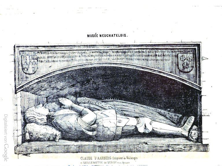 Claude d'Aarberg, seigneur de Valangin (1447-1517) and Guillemette de Vergy († 13 July 1543 in Valangin ; see Dict. Hist. de la Suisse).